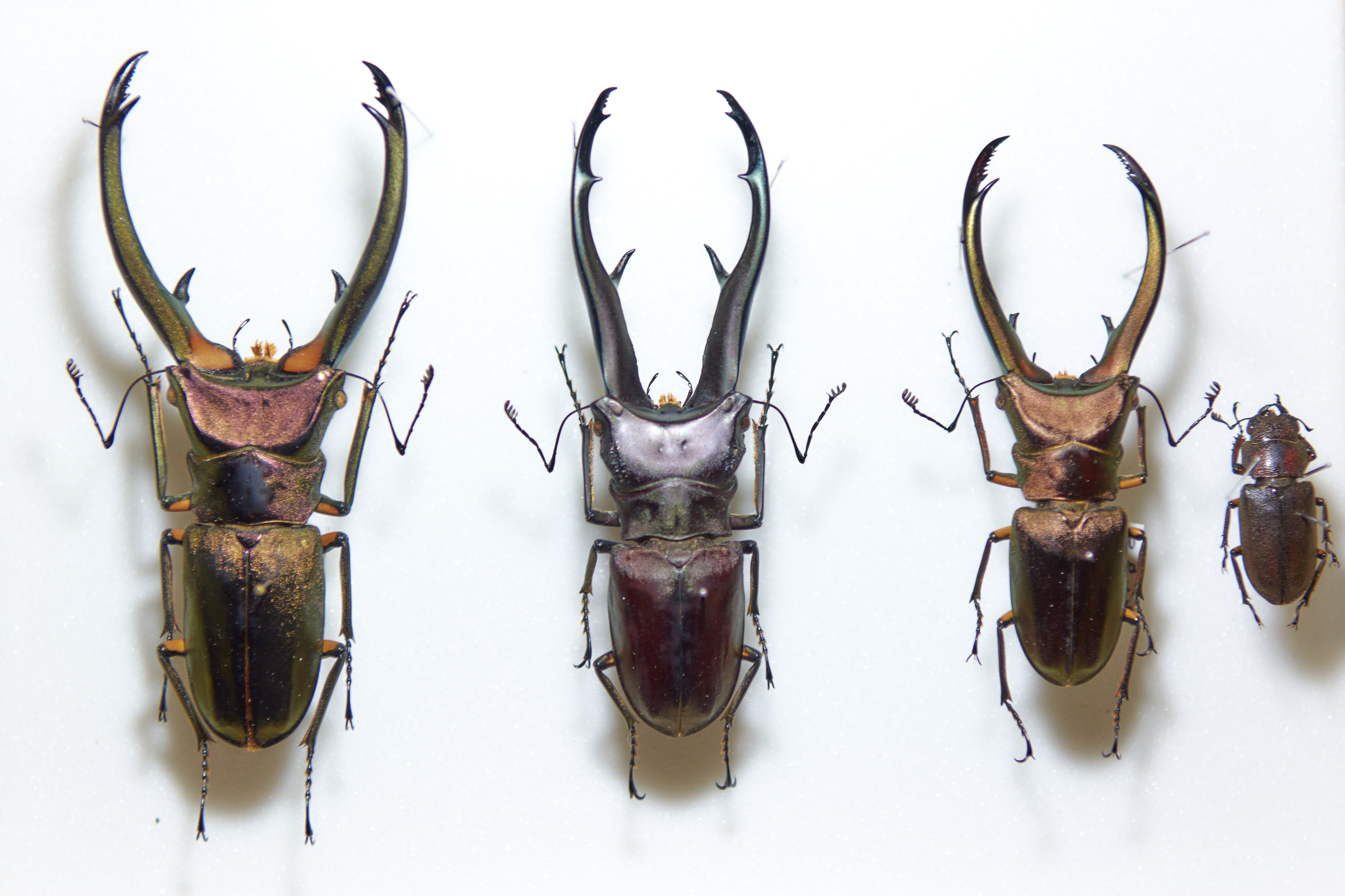 Two species and one subspecies of the genus Cyclommatus